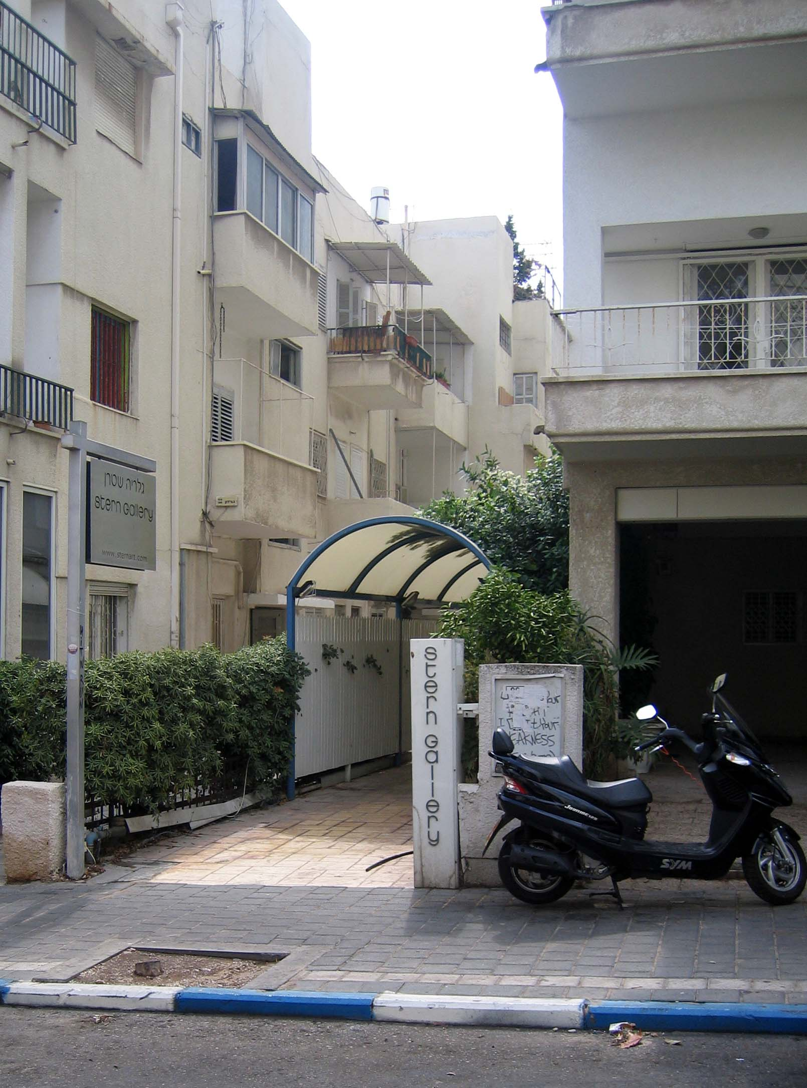 Stern Gallery, 30 Gordon St. Tel Aviv-Yaffo.